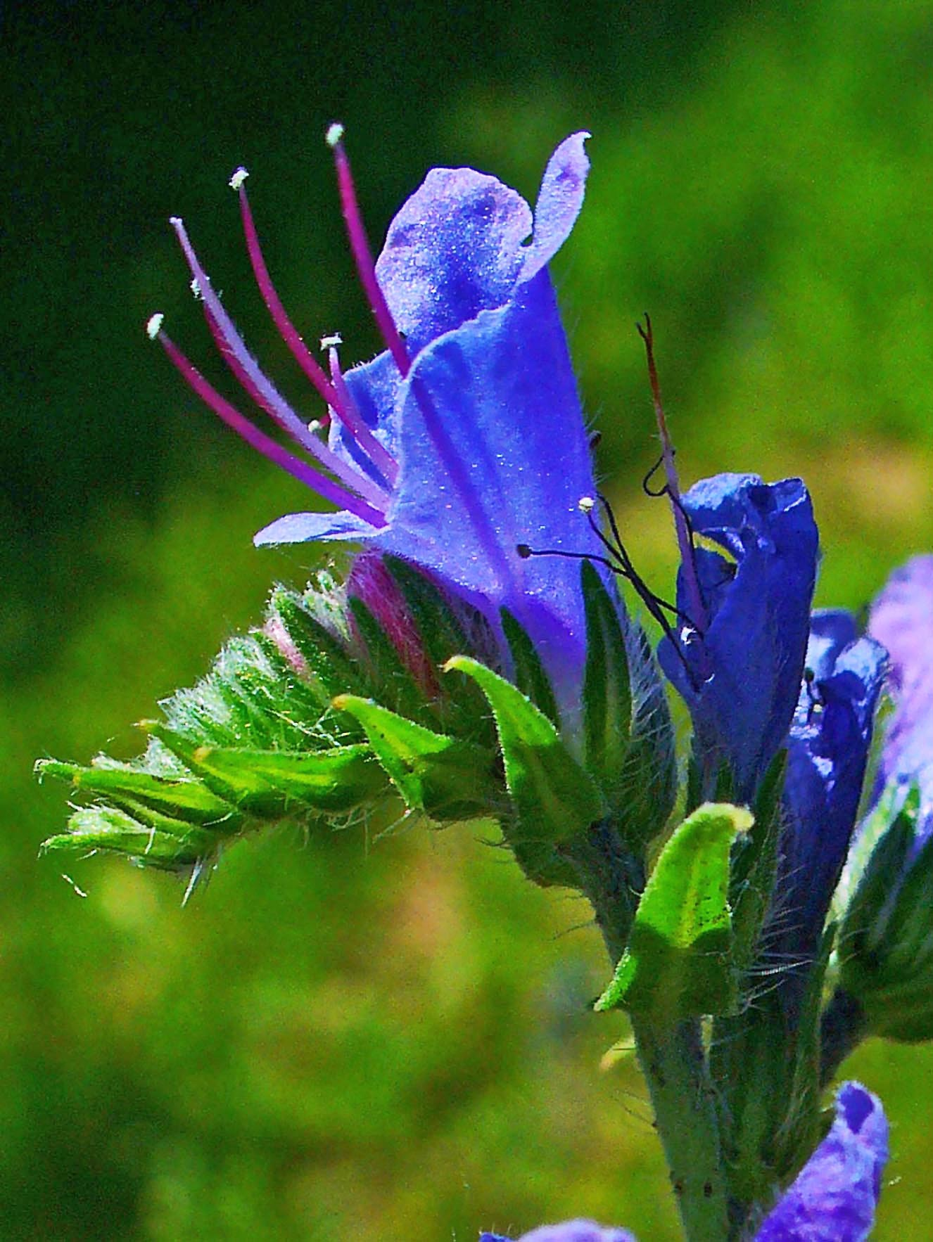 Echium vulgare, Boraginaceae, Viper's Bugloss, inflorescence; Karlsruhe, Germany.